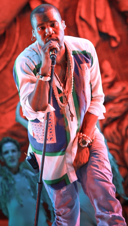 Kanye West performing at the The SWU Music & Arts Festival on November 12, 2011 in Brazil.